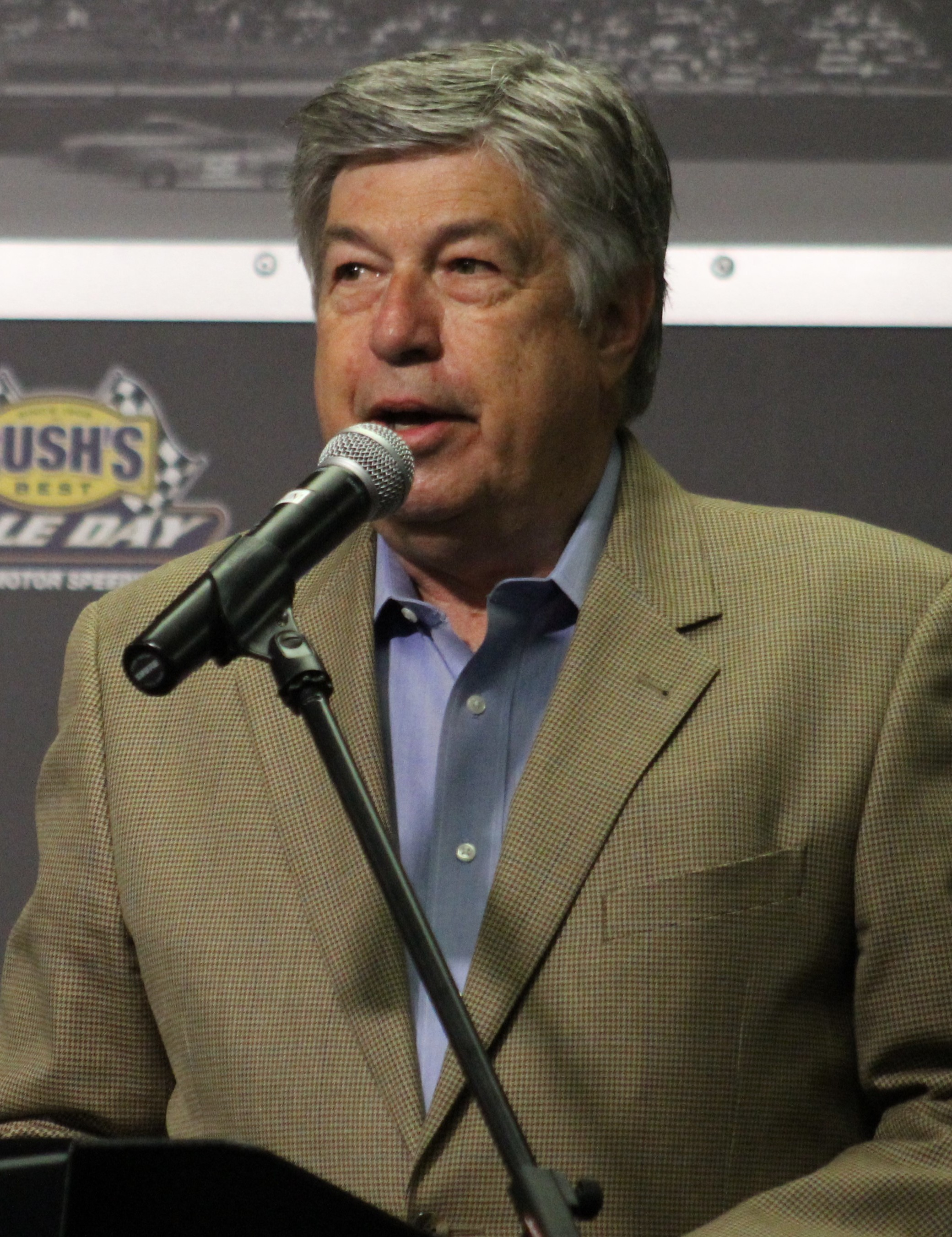 Mike Joy at Bristol Motor Speedway in 2019